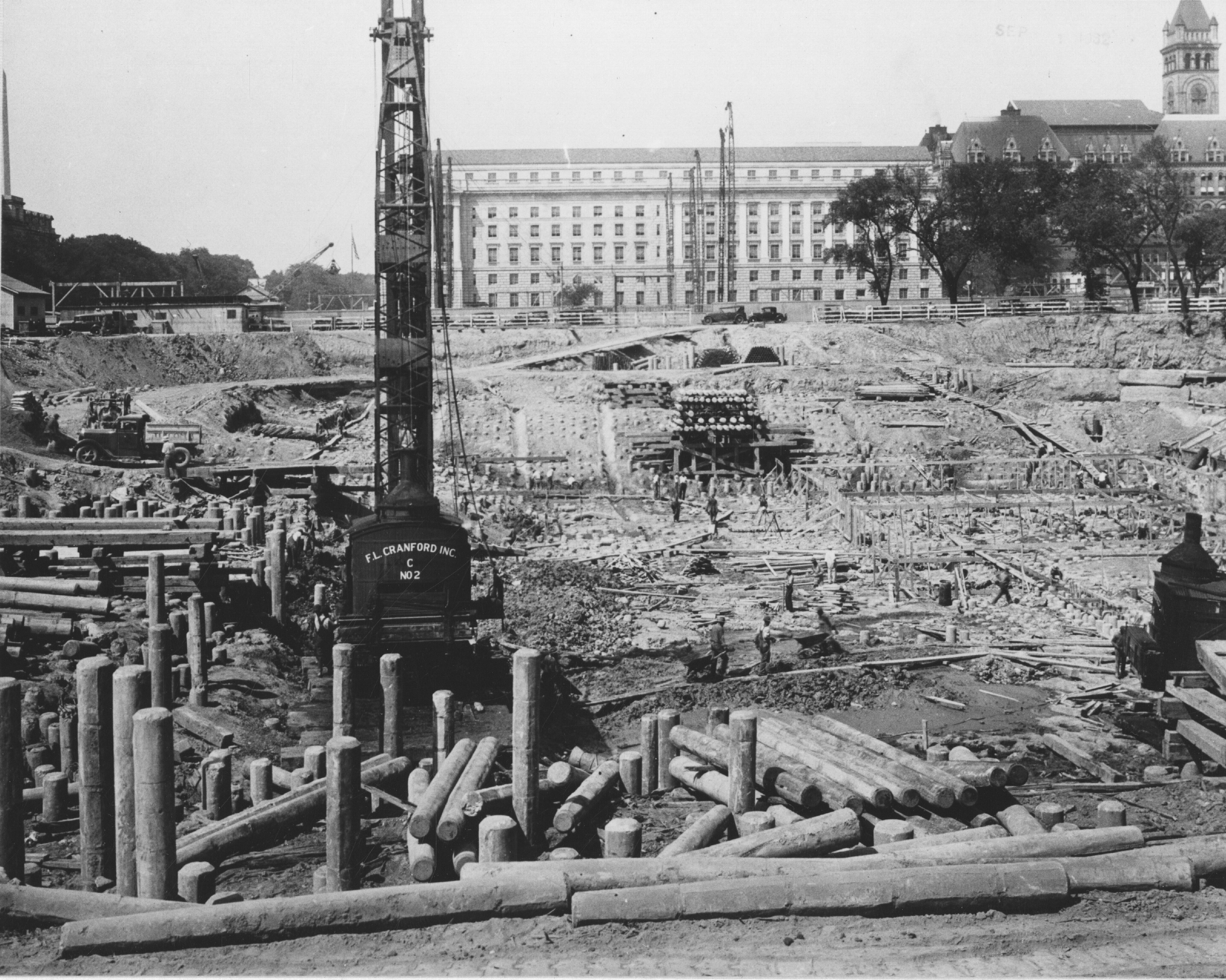 Creator(s): General Services Administration. National Archives and Records Service. Office of the National Archives. (9/19/1966 - 4/1/1985) Series: Construction of the National Archives Building, 1932 - 1942 Record Group 64: Records of the National Archives and Records Administration, 1789 - ca. 2007 Production Date: 1932 - 1942 Access Restriction(s): Unrestricted Use Restriction(s): Unrestricted Scope & Content: This photograph is part of the Cranford Contract for the site preparation of the National Archives Building. Contact(s): National Archives at College Park - Still Pictures (RDSS) National Archives at College Park 8601 Adelphi Road College Park, MD 20740-6001 Phone: 301-837-0561 Fax: 301-837-3621 National Archives Identifier: 26326610 Local Identifier: 64-NAC-61 Persistent URL